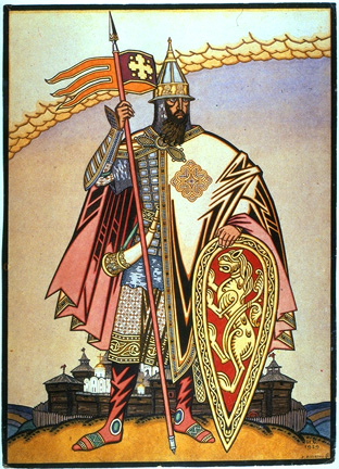 PRINCE IGOR. 1929